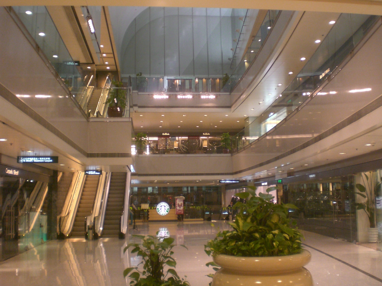 香港中環萬宜大廈的zh:中庭